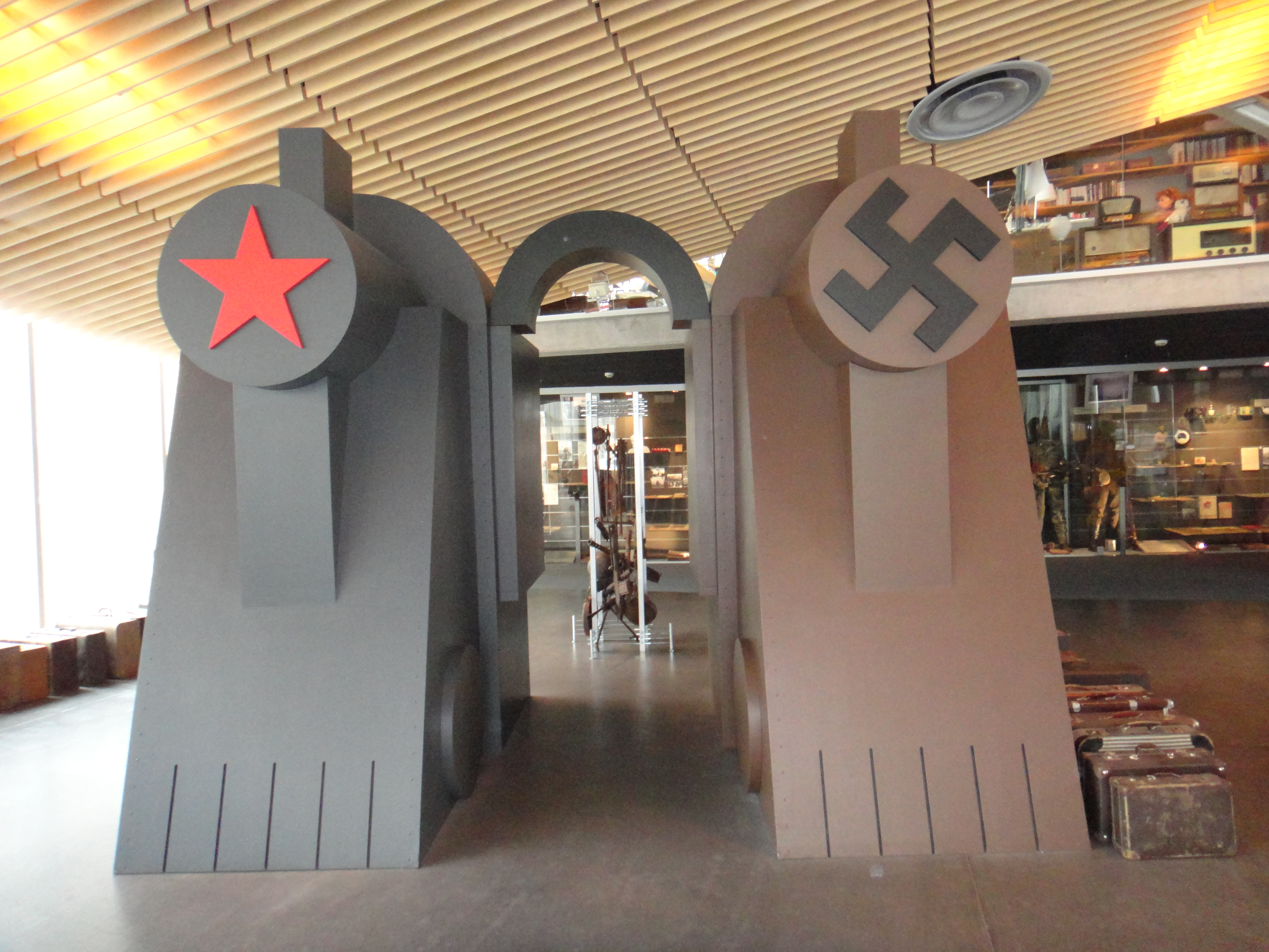 Tallinn Museum of Occupation reminder of Soviet and Nazi occupation